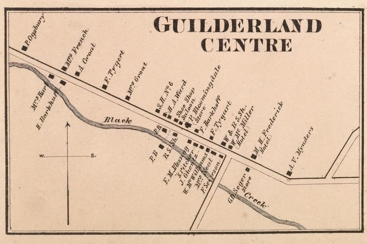 Inset of Guilderland Center in a map of the town of Guilderland, 1866